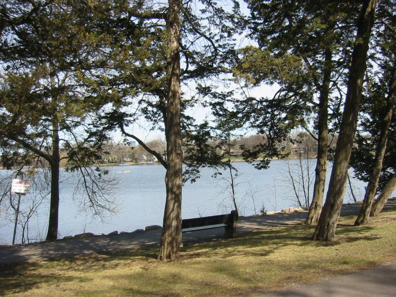 A picture from the west shore of Cedar Lake, taken in April of 2006.